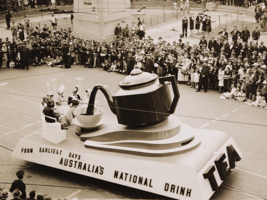 Format: Photograph Find more detailed information about this photographic collection: .au/item/itemDetailPaged.aspx?itemID=431577 Search for more great images in the State Library's collections: .au/search/SimpleSearch.aspx From the collection of the State Library of New South Wales